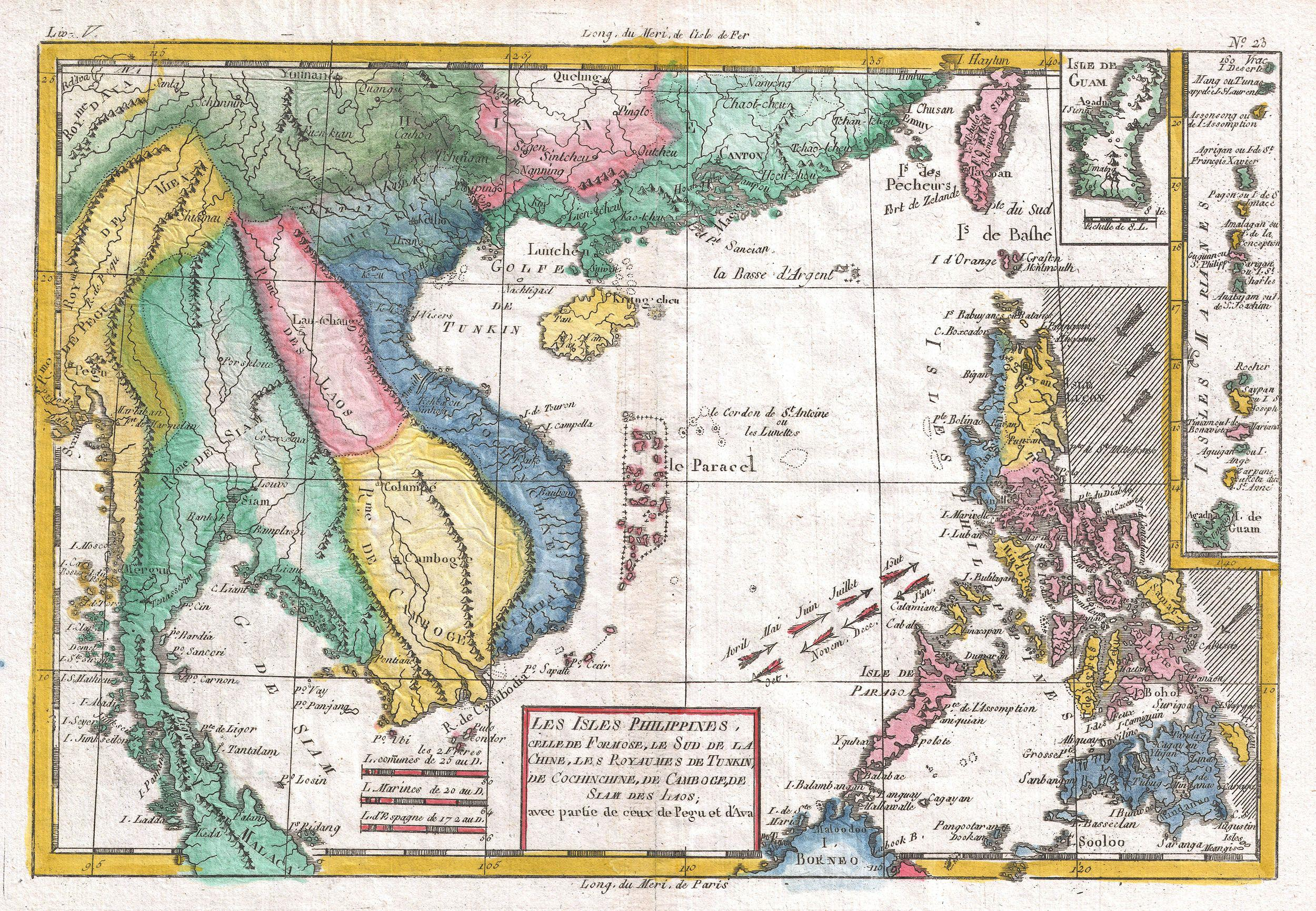 A fine example of Rigobert Bonne and G. Raynal’s 1780 map of the Southeast Asia and the Philippines. Map corresponds to modern day countries of the Philippines, Vietnam (Tonquin and Chochin), Cambodia (Camboge), Thailand (Siam), Malaysia (Malaca), Taiwan (Formosa) and Laos. Identifies the cities of Tayoun (Taiwan), Manila, Macao, Siam and Bangkok. Wind currents and some undersea dangers in the South China Sea. Drawn by R. Bonne for G. Raynal’s Atlas de Toutes les Parties Connues du Globe Terrestre, Dressé pour l'Histoire Philosophique et Politique des Établissemens et du Commerce des Européens dans les Deux Indes .